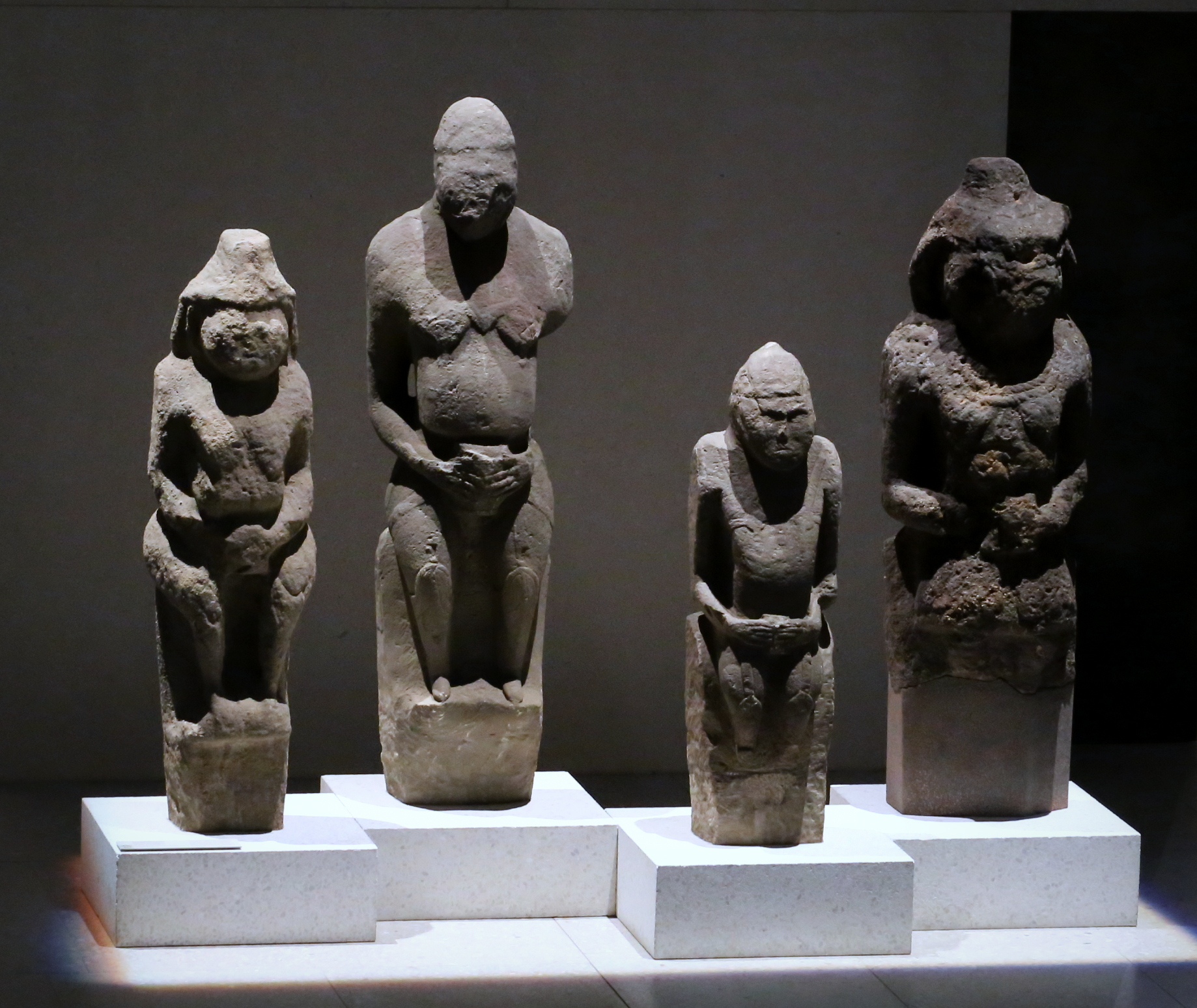 from the Kharkiv Oblast, Ukraine